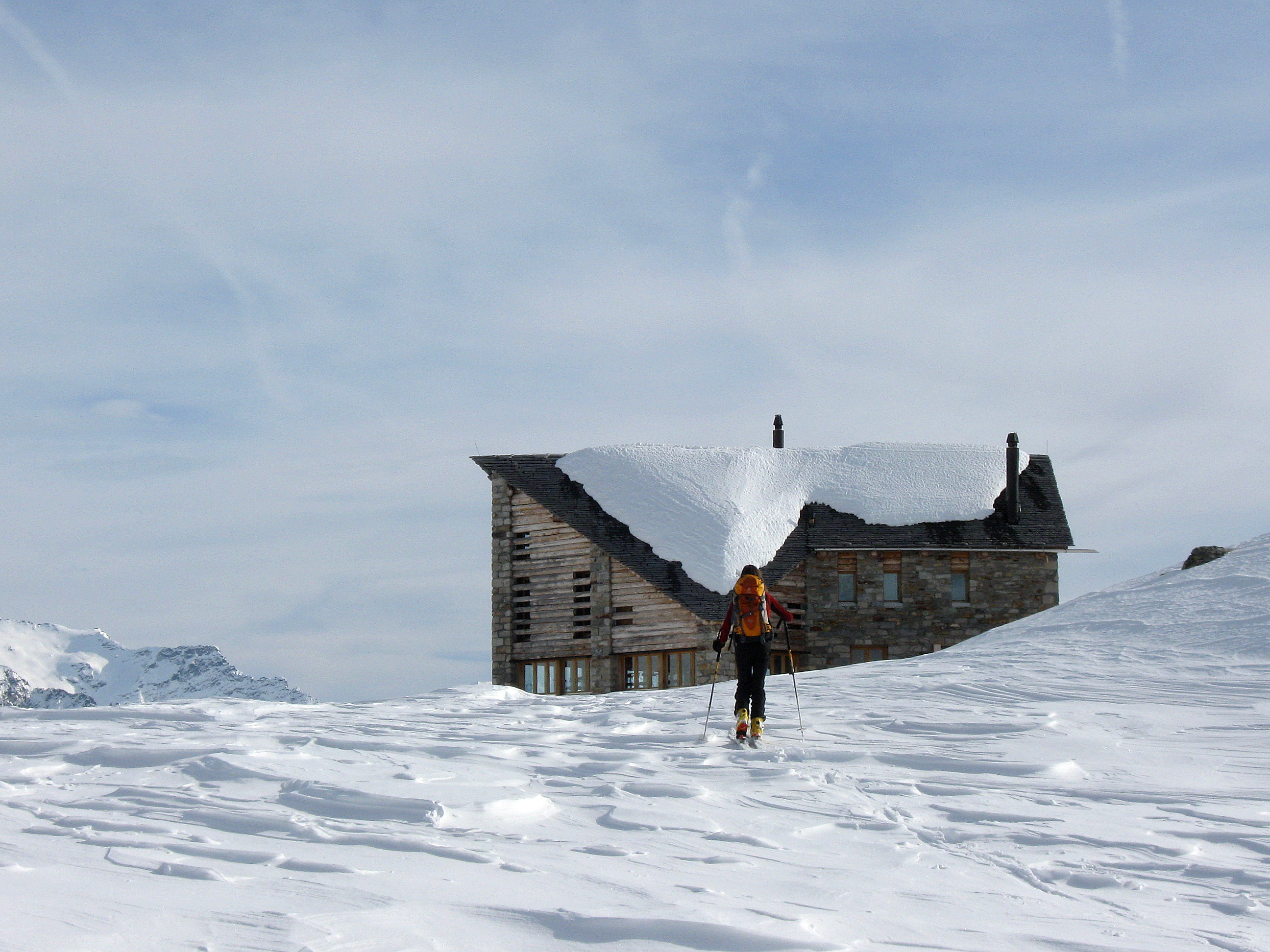 Approaching Capanna Quarnei